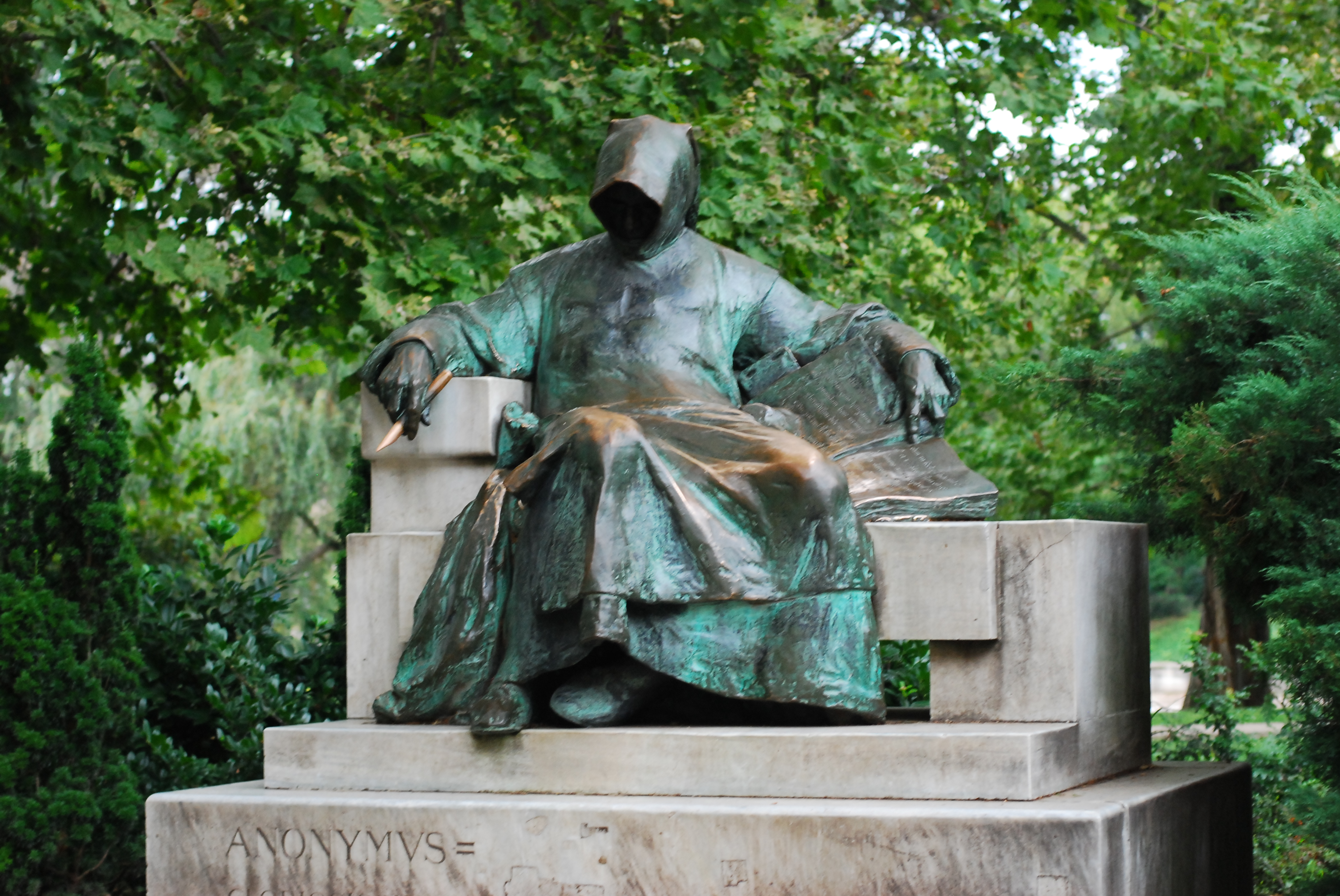 Statue of Anonymous, author of Gesta Hungarorum, in the Vajdahunyad Castle yard, Budapest, Hungary